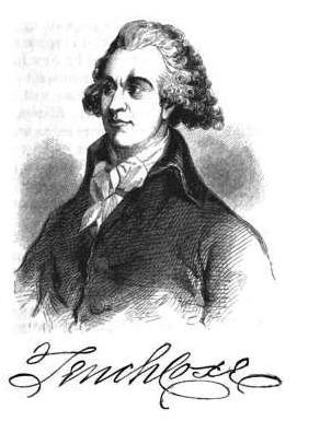 Portrait of Tench Coxe, participant in the Constitutional Convention.